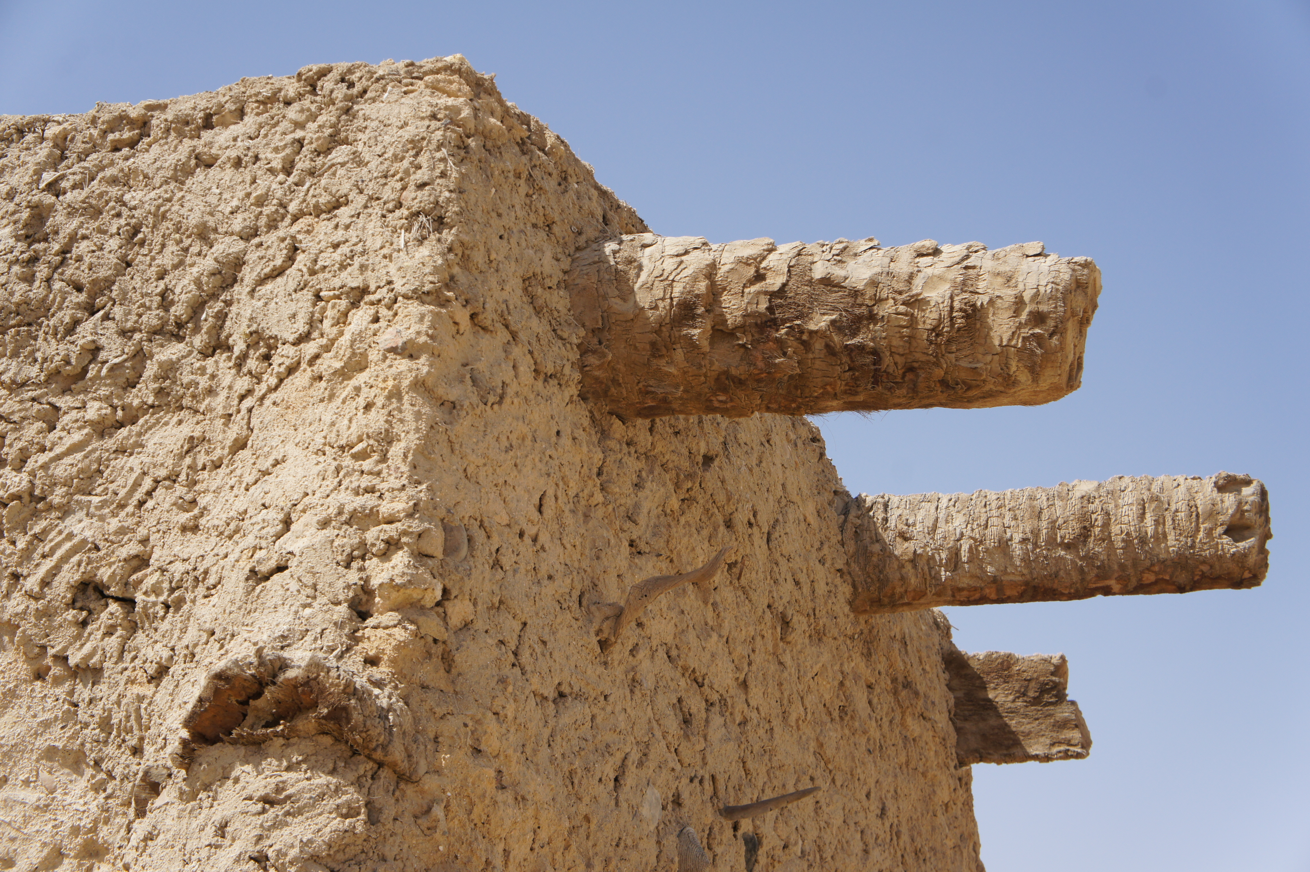 Siwa Oasis, Egypt, Shali (Old Town), famous for its kersheef (Mud brick) architecture.